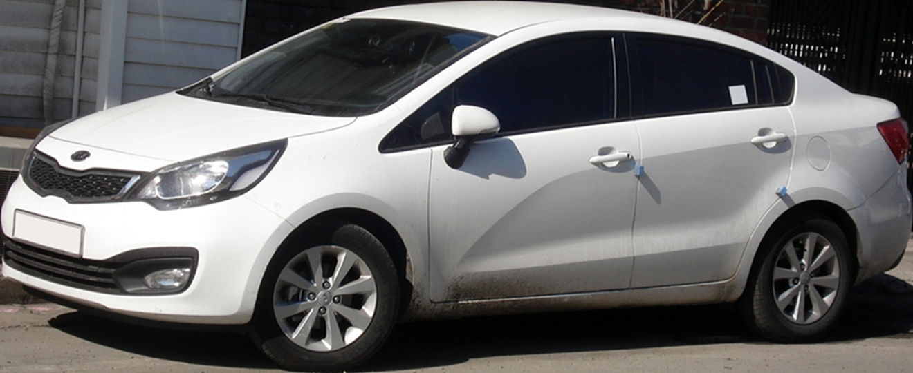 Kia All New Pride